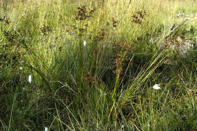 Picture taken in Commanster, Belgian High Ardennes . Species: Juncus acutiflorus